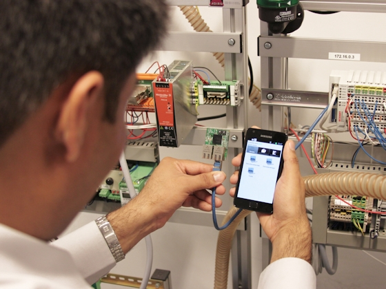 Using OPC-UA as a middleware from the sensor to the internet.